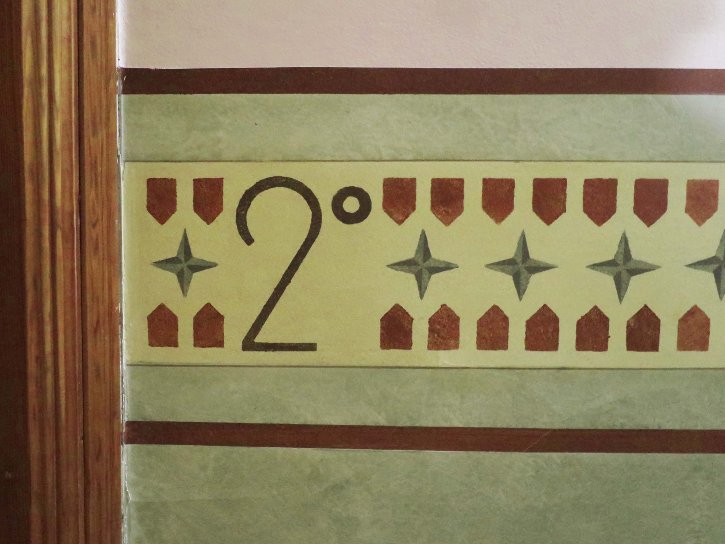 Casa Botines, staircase, indication for the 2nd floor